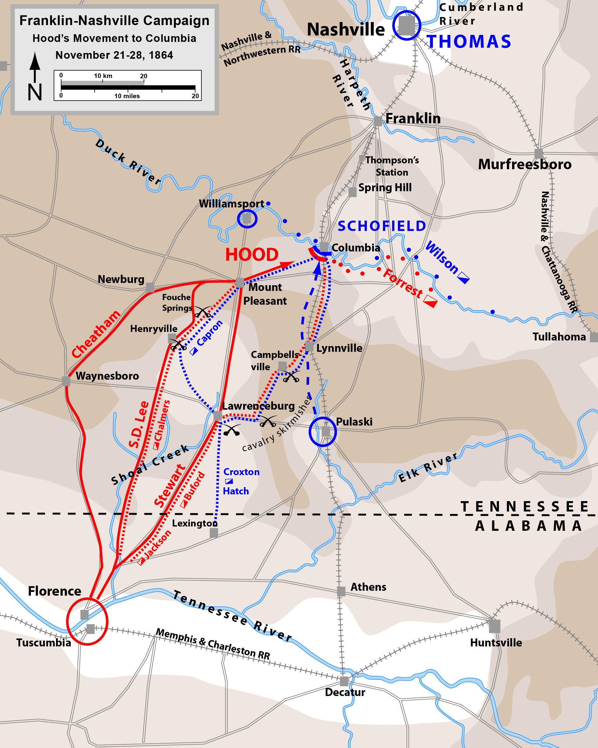 Map of John Bell Hood's advance from Florence, Alabama, to Columbia, Tennessee, during the Franklin-Nashville Campaign of the American Civil War. Drawn in Adobe Illustrator CS5 by Hal Jespersen. Graphic source file is available at